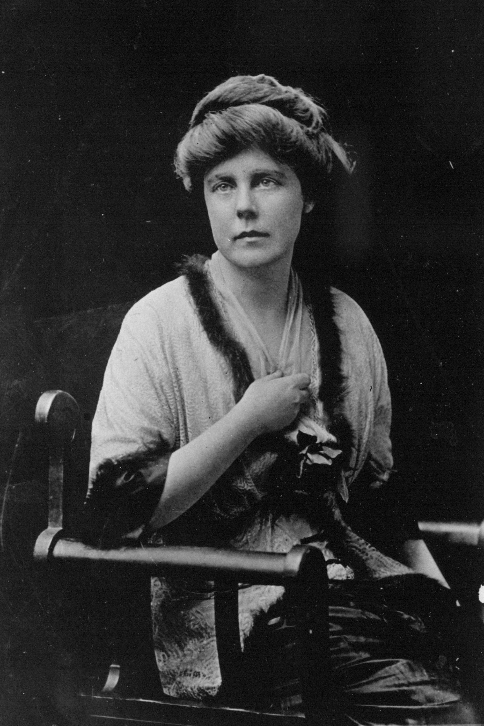 Lucy Burns, Vice Chairman Congressional Union, 1913